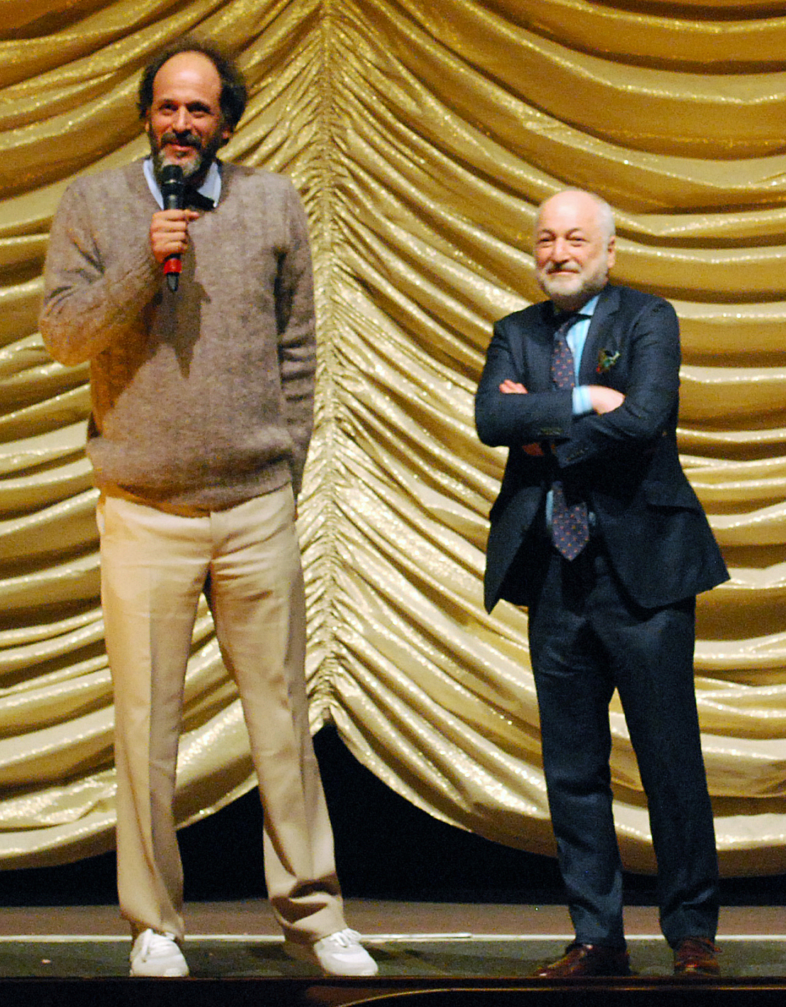 Showing Call Me By Your Name @Berlin Film Festival 2017